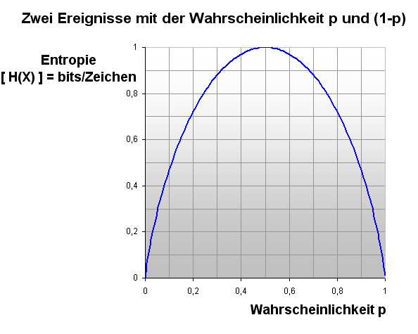 Informationstheorie - Maximale Entropie; information theorie - maximum entropy